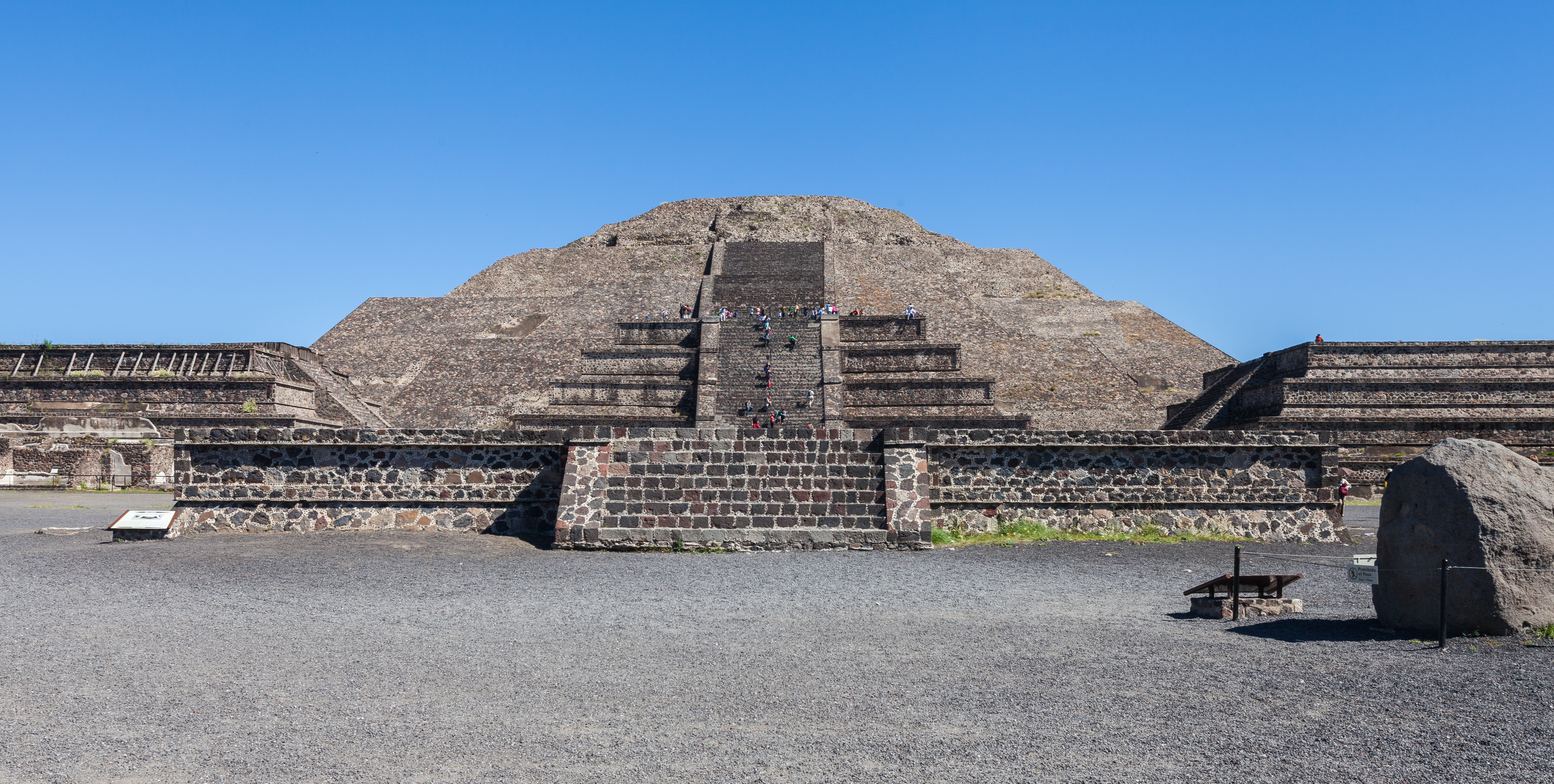 The Pyramid of the Moon in Teotihuacan, México